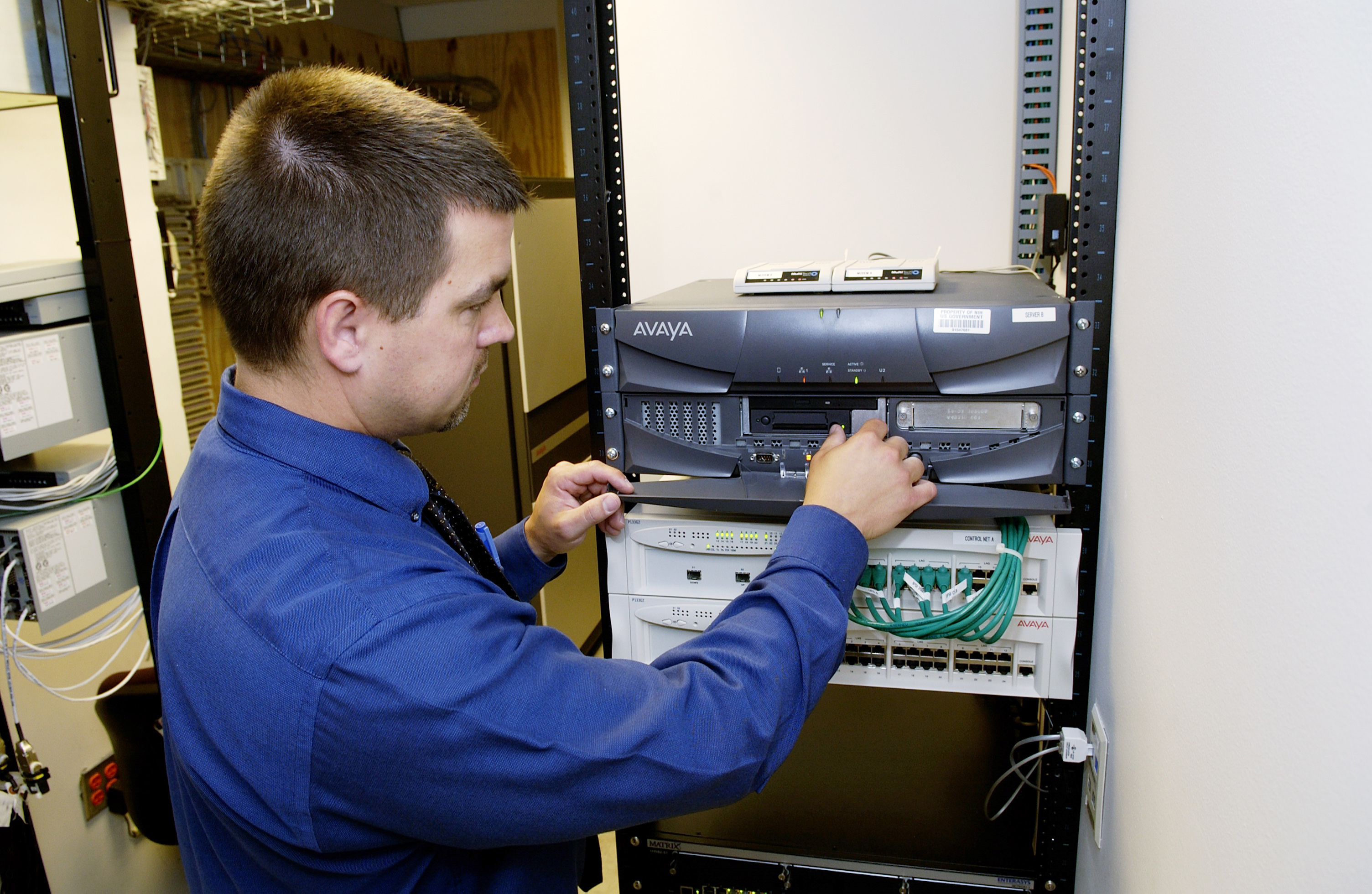 Title Network Server and Technician Description A Caucasian male IT technician checks the network server, which collects and transmits information to computers. Topics/Categories People -- Adult Science and Technology -- Computers Type Color, Photo